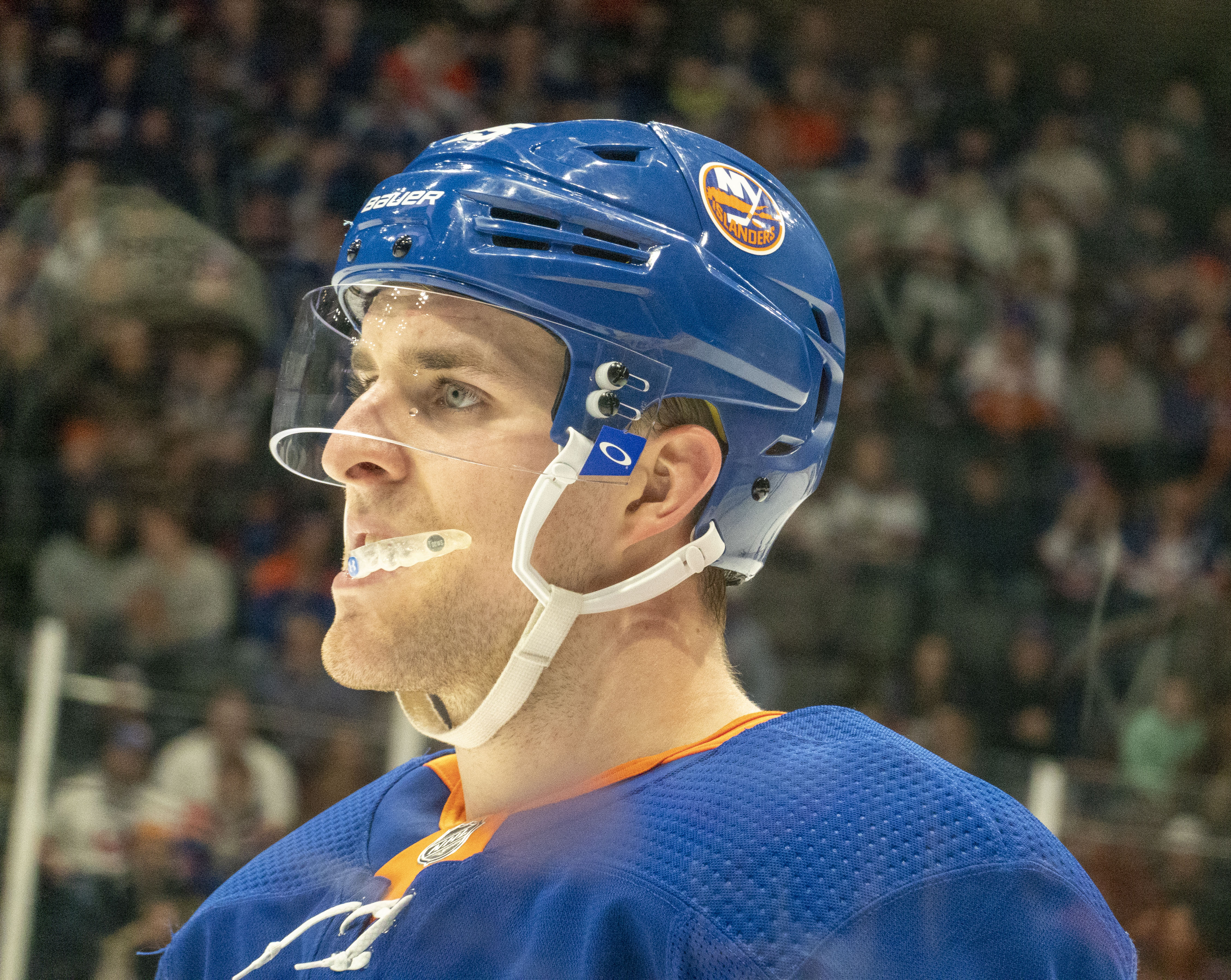 Cal Clutterbuck with the Islanders in 2020.